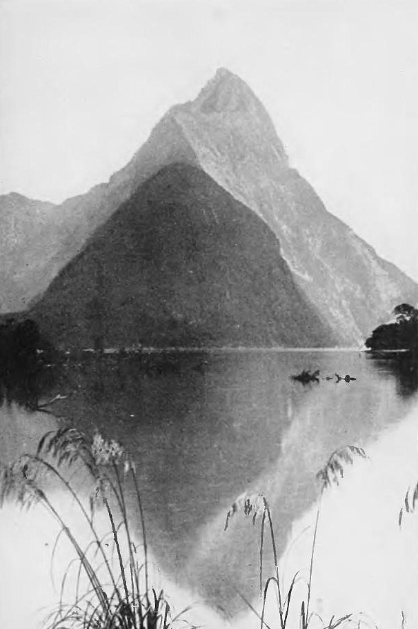 Image from scanned version of the PD book Picturesque New Zealand by Paul Gooding